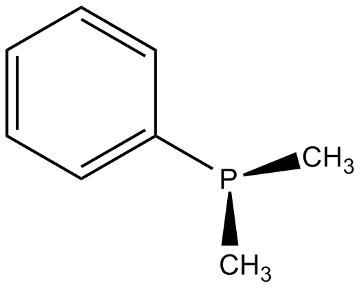 Dimethylphenylphosphine